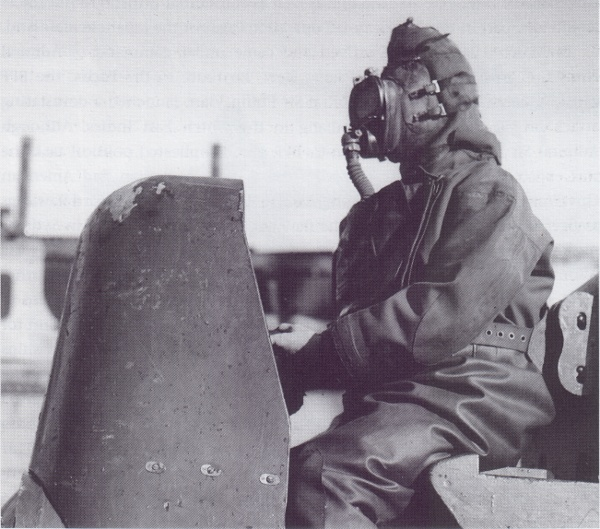 Crewman on a Chariot Mk I manned torpedo, wearing a Sladen suit with oxygen breathing aparatus.